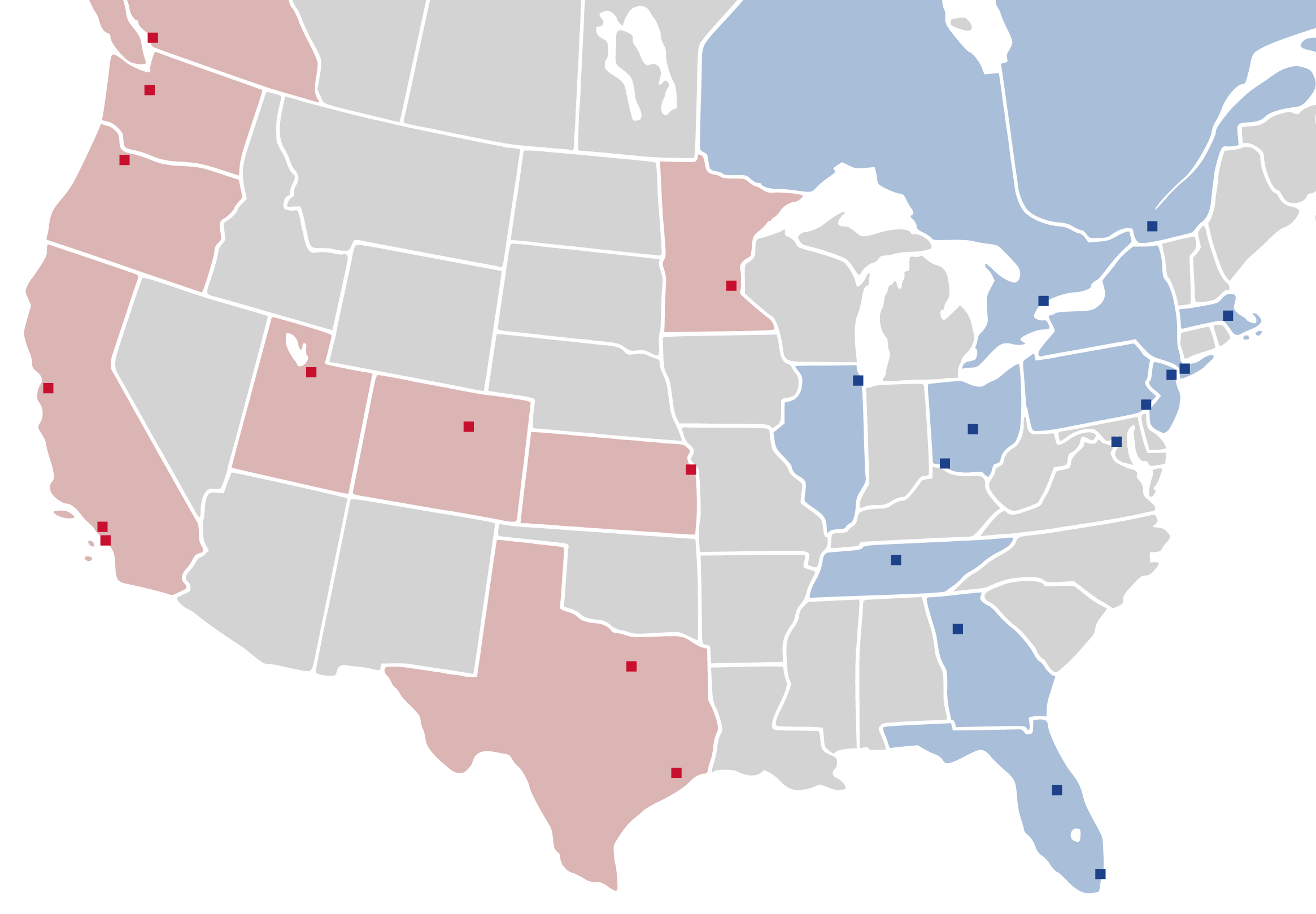 Locations of all Major League Soccer teams for the 2020 season, adding Nashville, Miami, and a second LA dot.